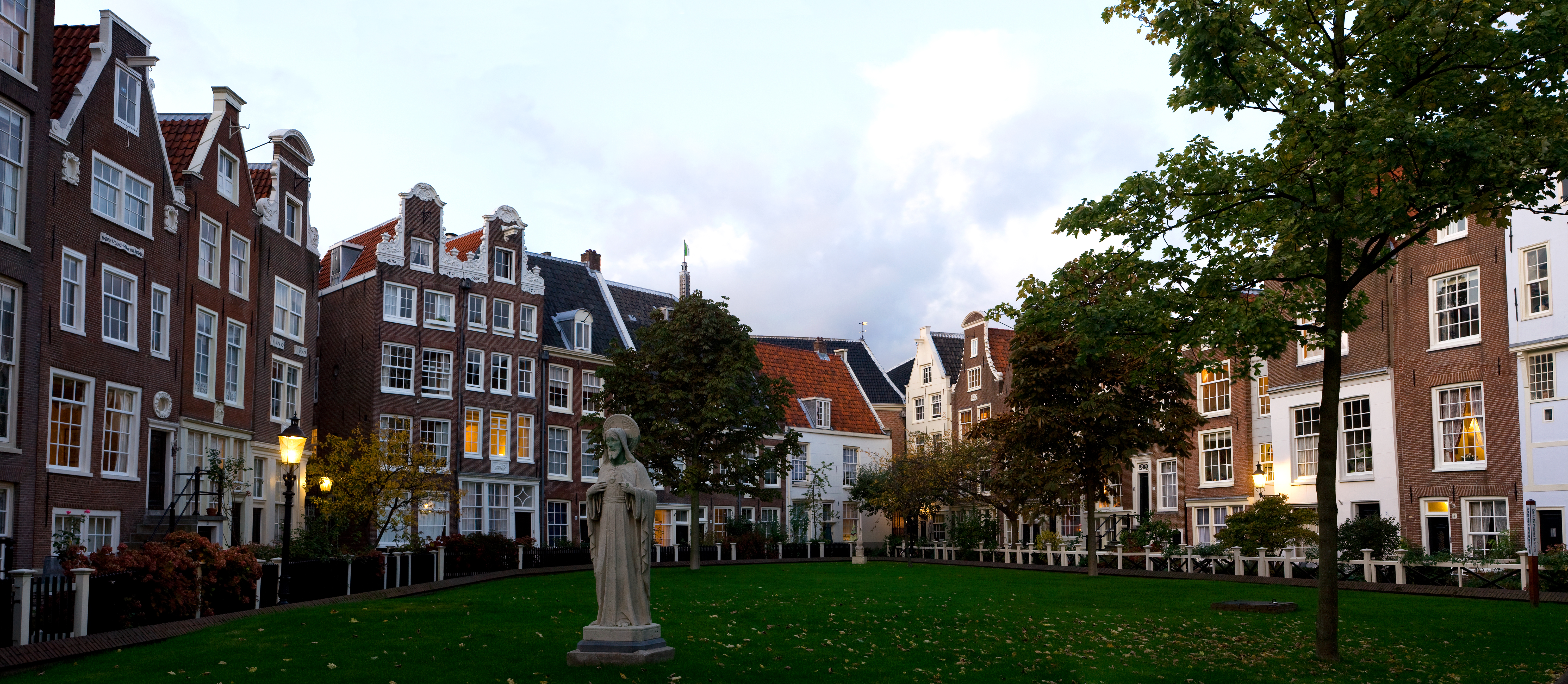 A view captured in a panorama of the Begijnhof in Amsterdam at dusk.